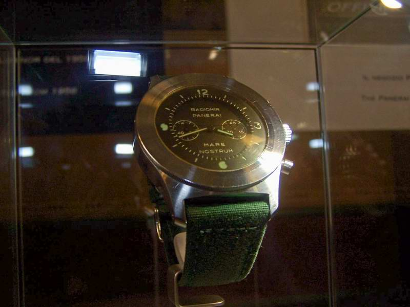 This work is free and may be used by anyone for any purpose. If you wish to use this content, you do not need to request permission as long as you follow any licensing requirements mentioned on this page.